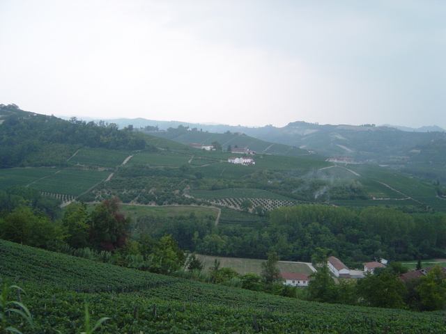 Image of vineyards near the Italian commune of Barbaresco.